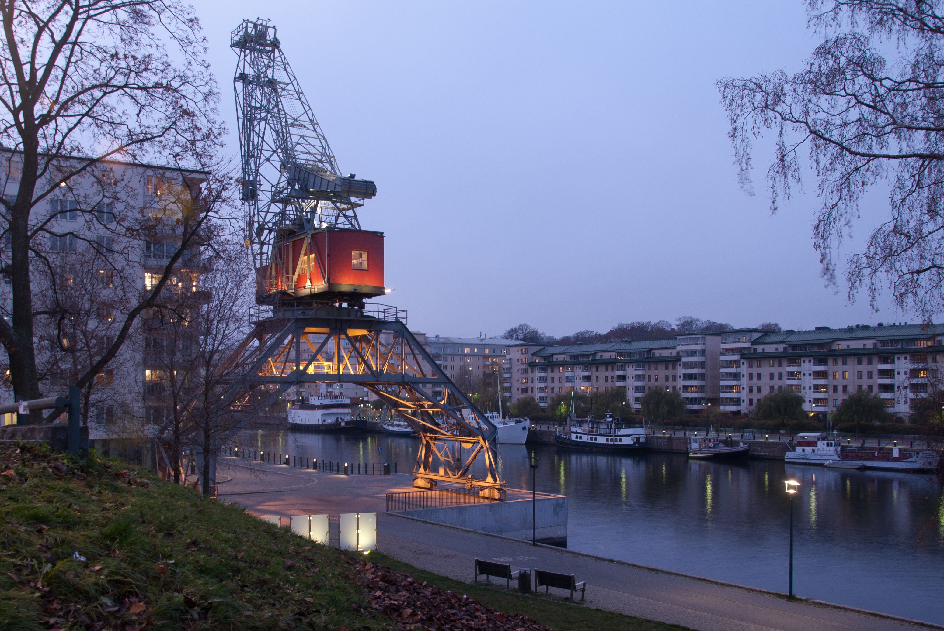 Lumakranen is an old crane in Hammarby sjöstad. Before the current redevelopment began, the area was known as Norra Hammarbyhamnen and Södra Hammarbyhamnen (roughly North and South Hammarby Port), a mainly industrial zone.